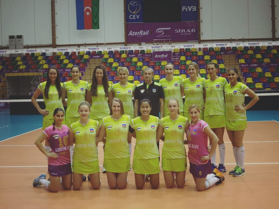 Azeryol Baku